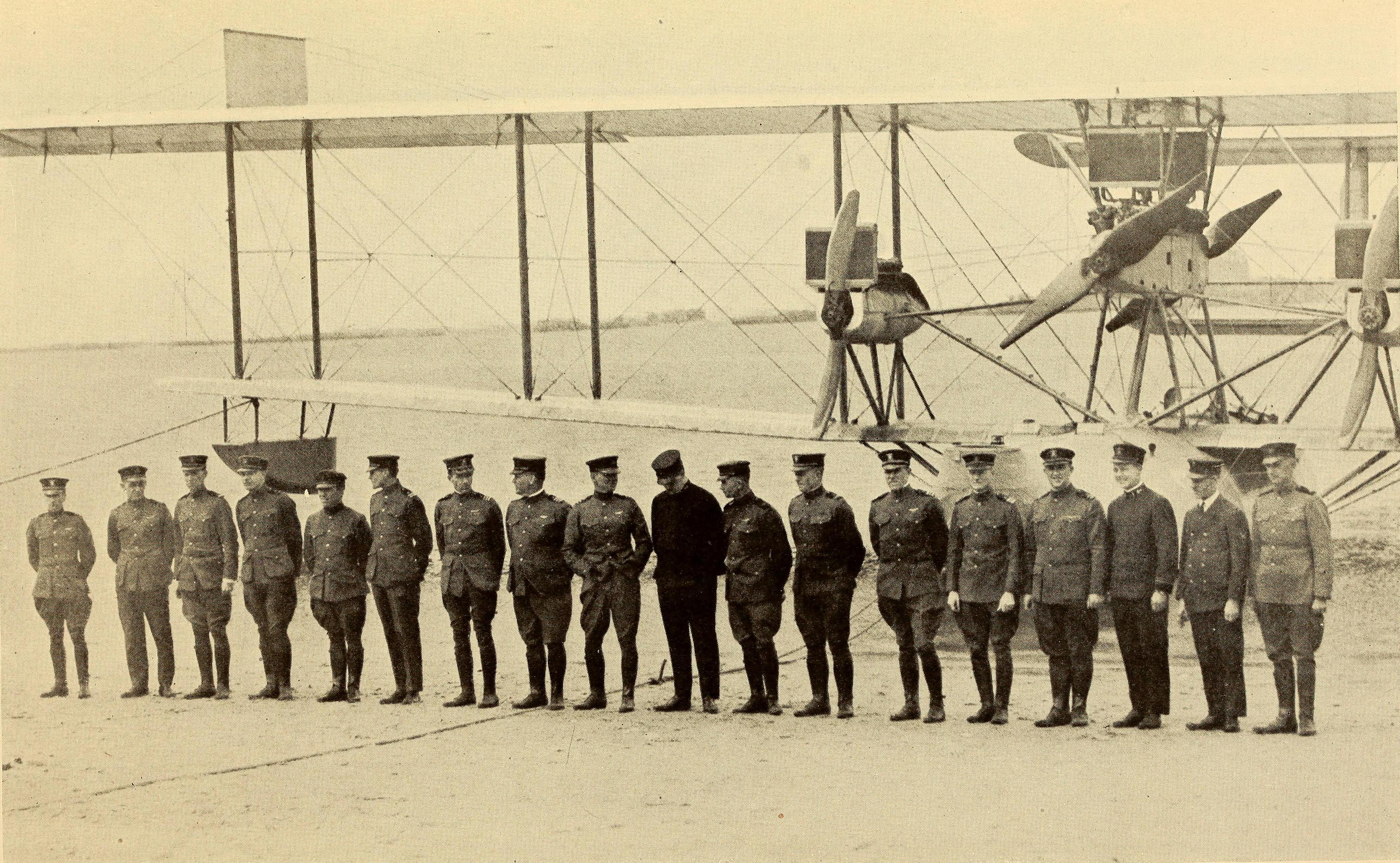 The National geographic magazine.